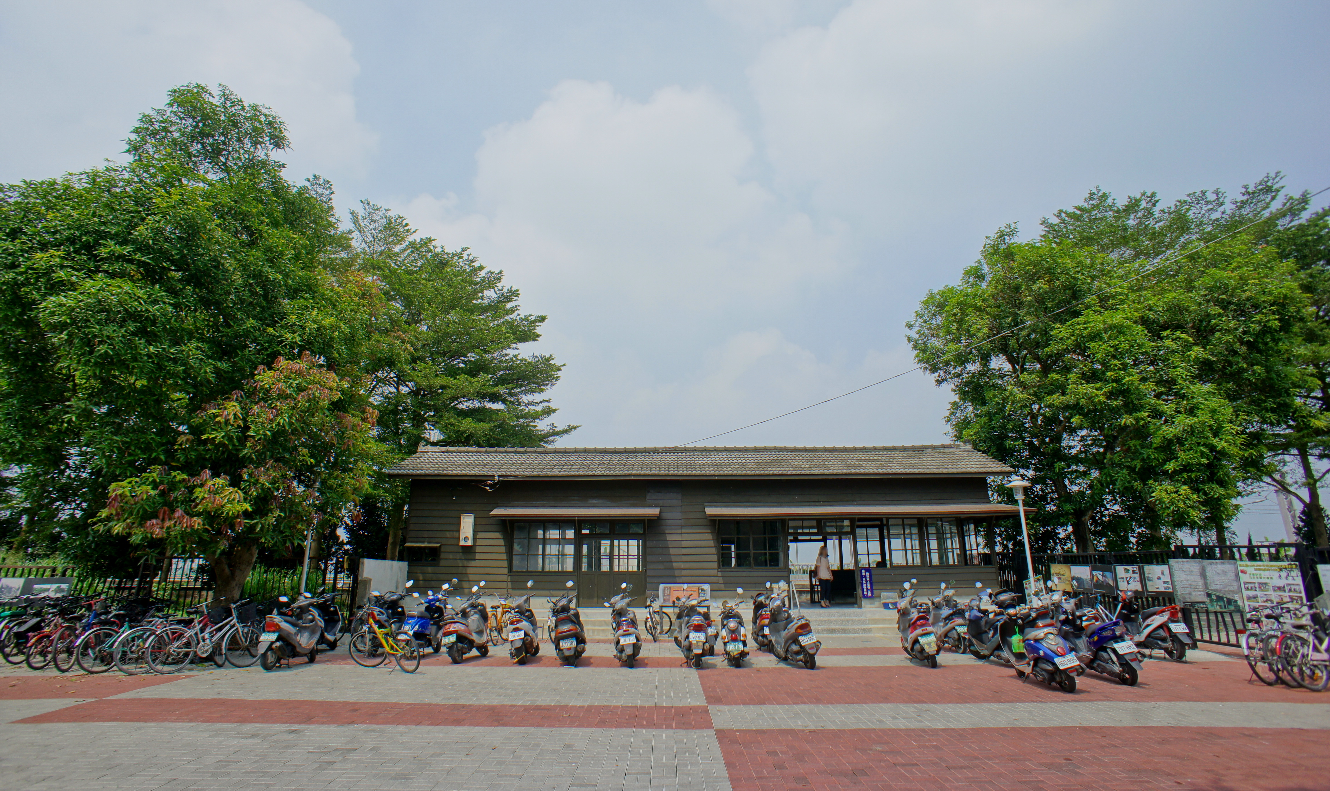 Shiliu Station, Yunlin, Taiwan.